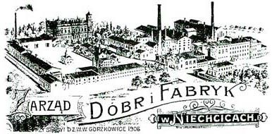 Rycina przedstawiająca zakład w Niechcicach w roku 1906.